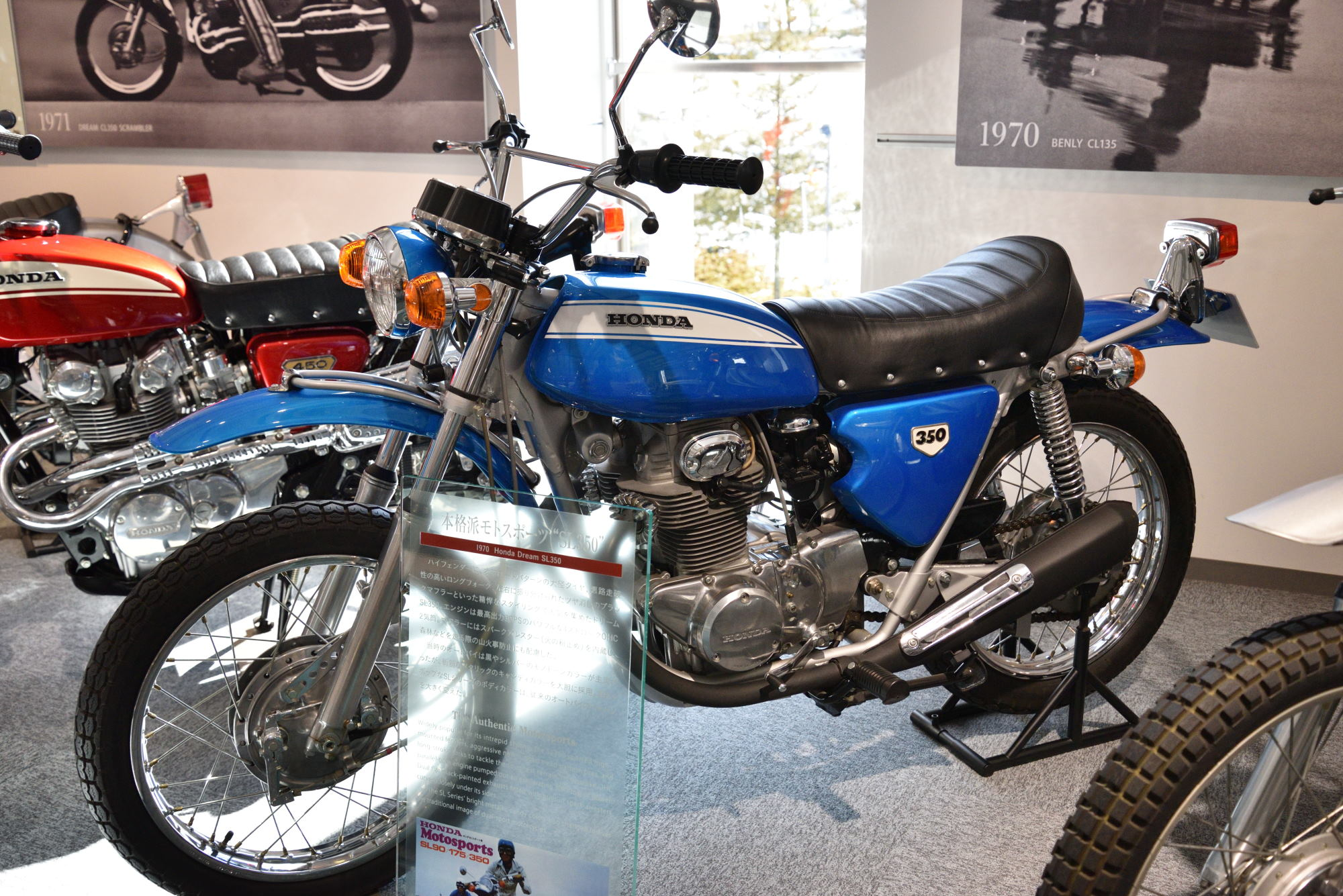 Honda SL350 (1970), in the Honda Collection Hall, Japan